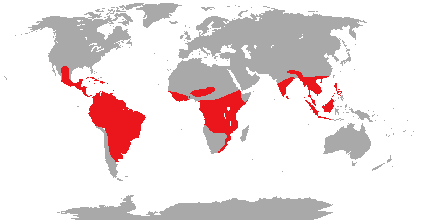 Map showing the range of the Trogons.